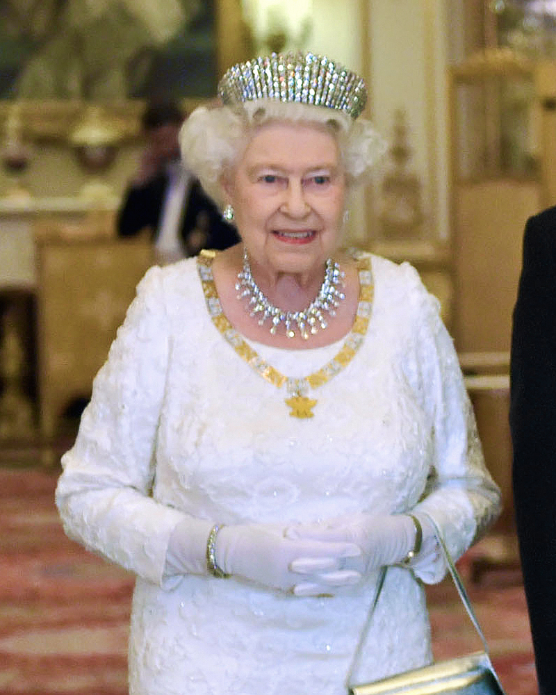 Queen Elizabeth II hosting a state banquet for the president of Mexico.